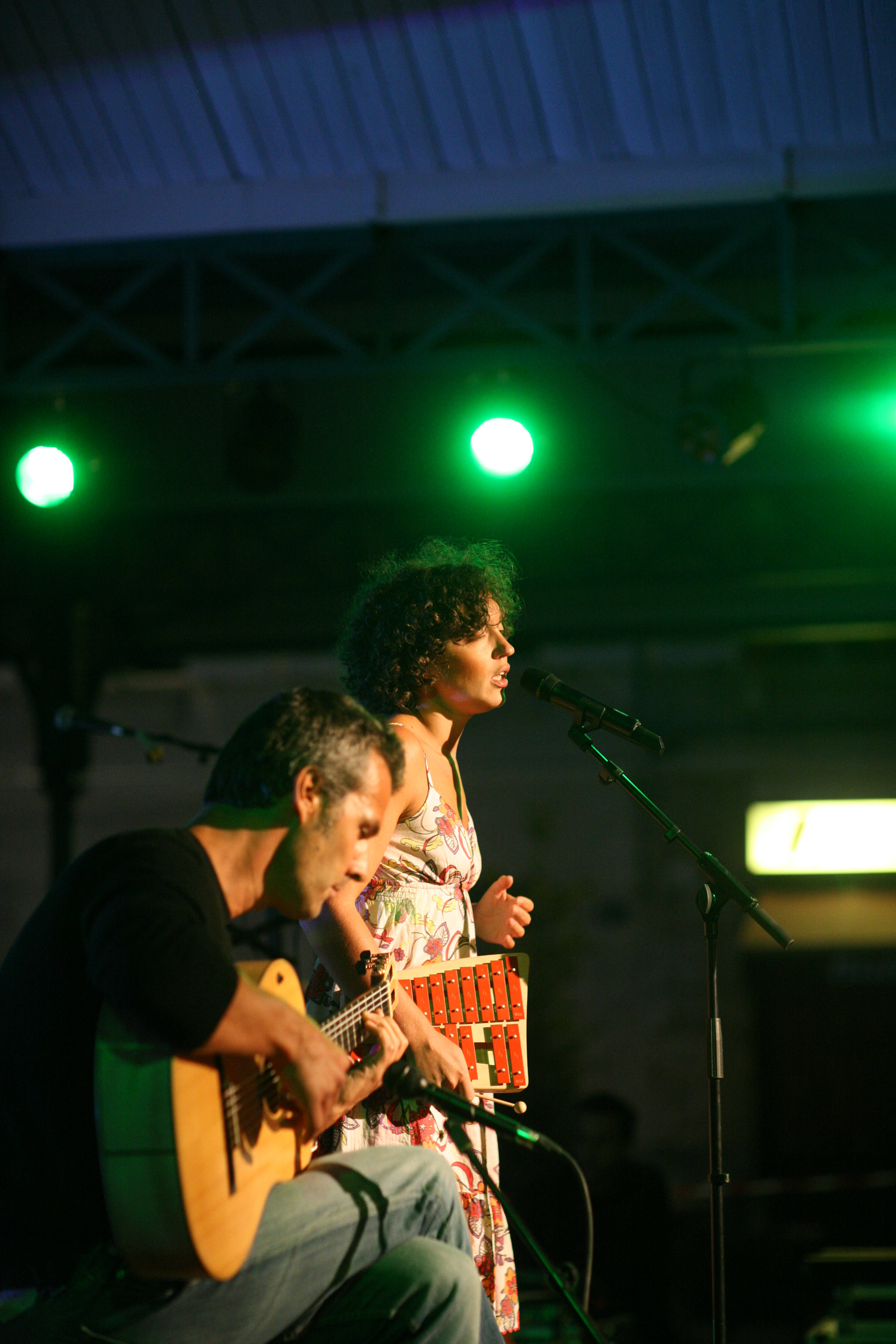 La Voisin in concert